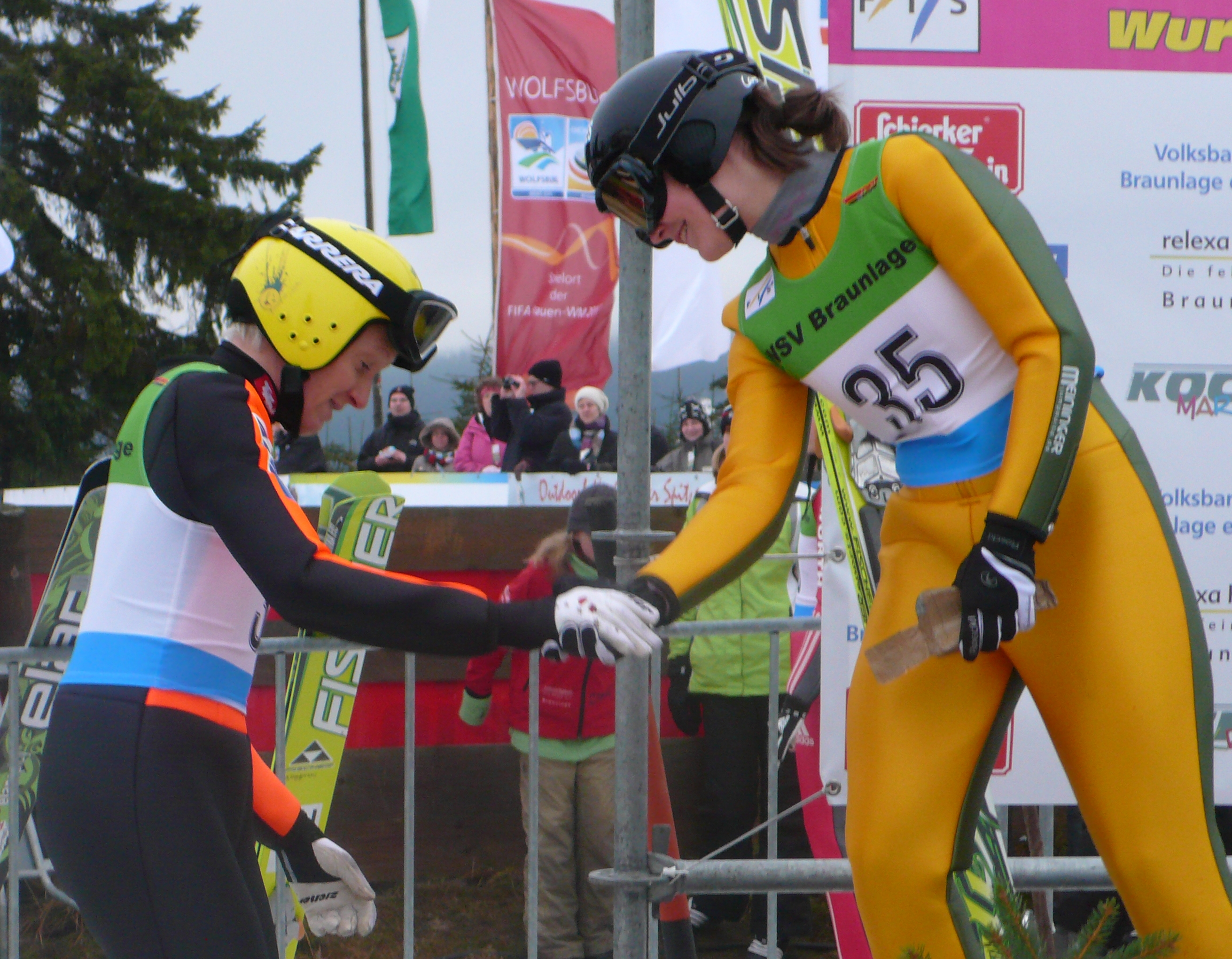 Daniela Iraschko congratulate Coline Mattel, Braunlage